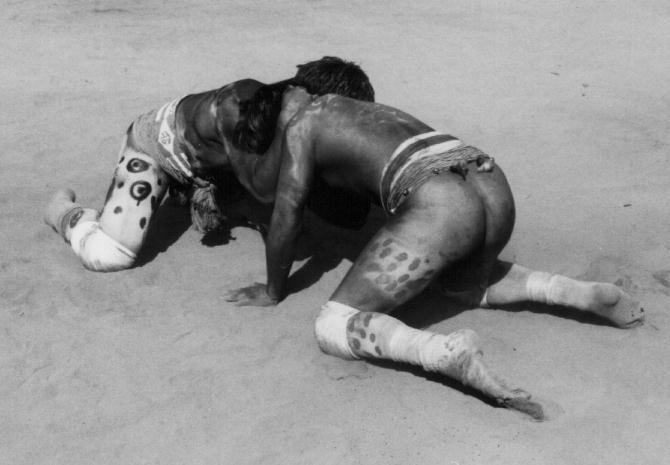 Huka huka fight, performed by the natives of the Upper Xingu, in the Kuarup ceremony.